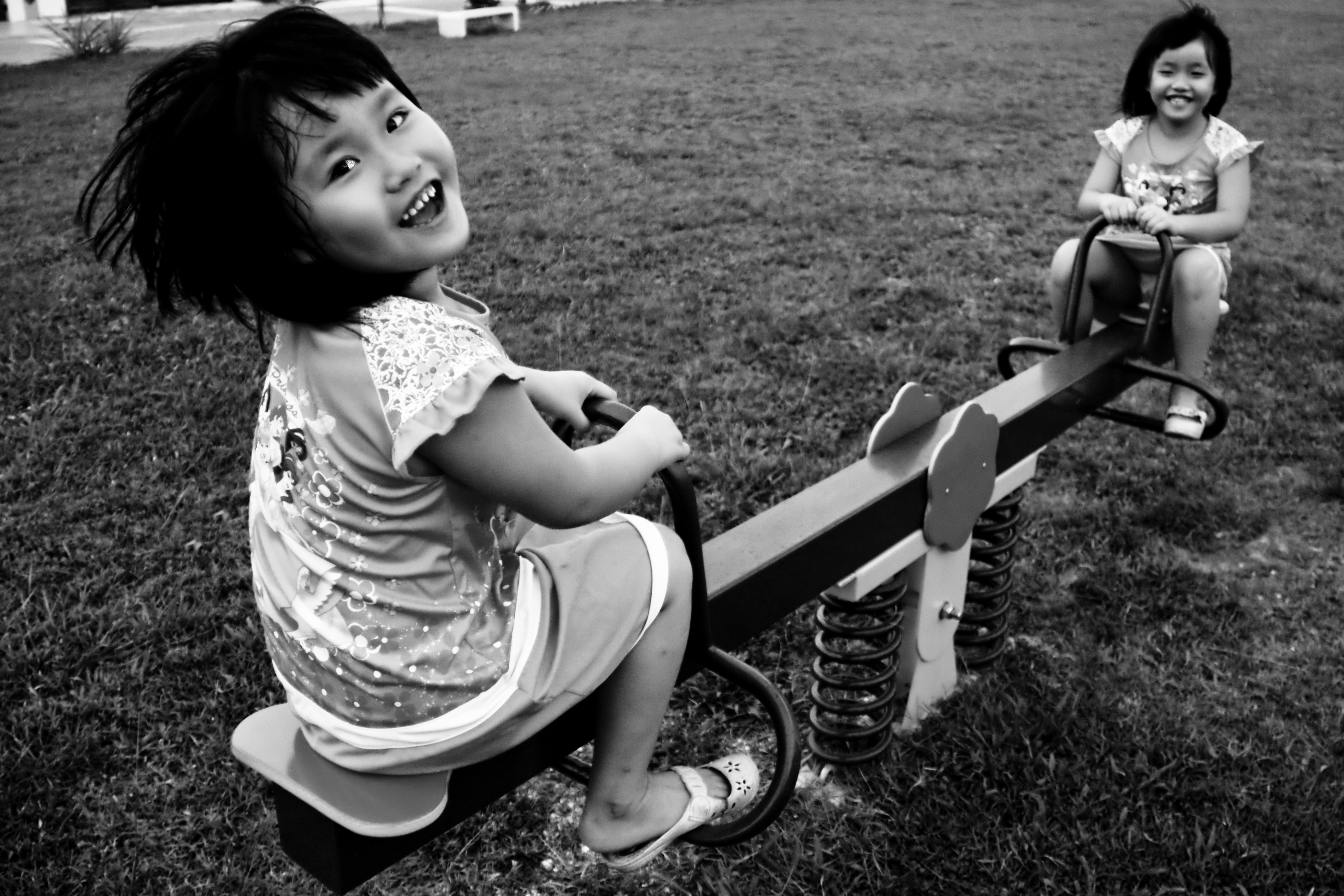 Twin by jiunn kang too